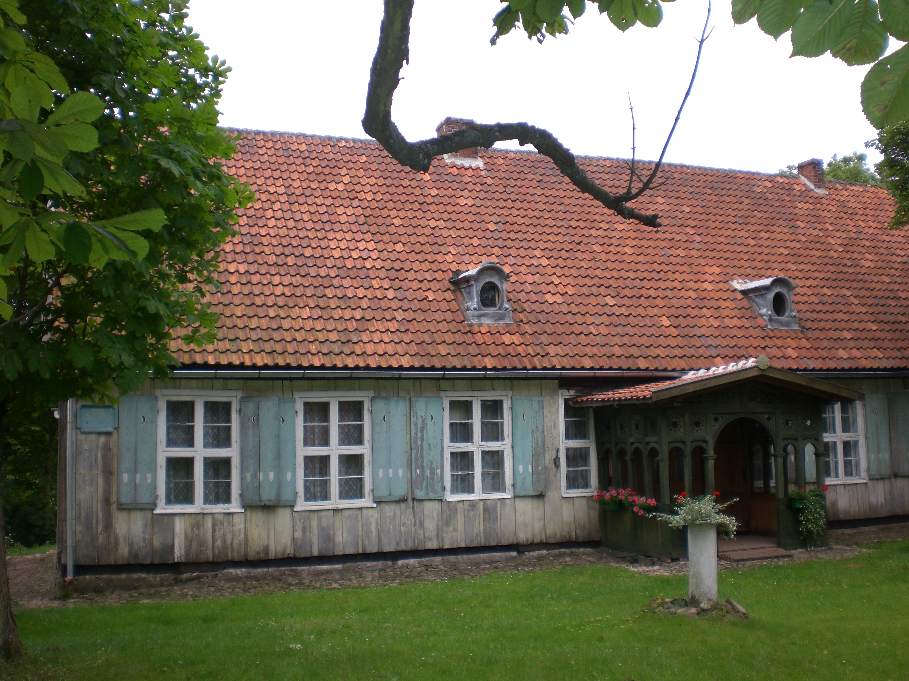 Manor in Mirachowo, Poland